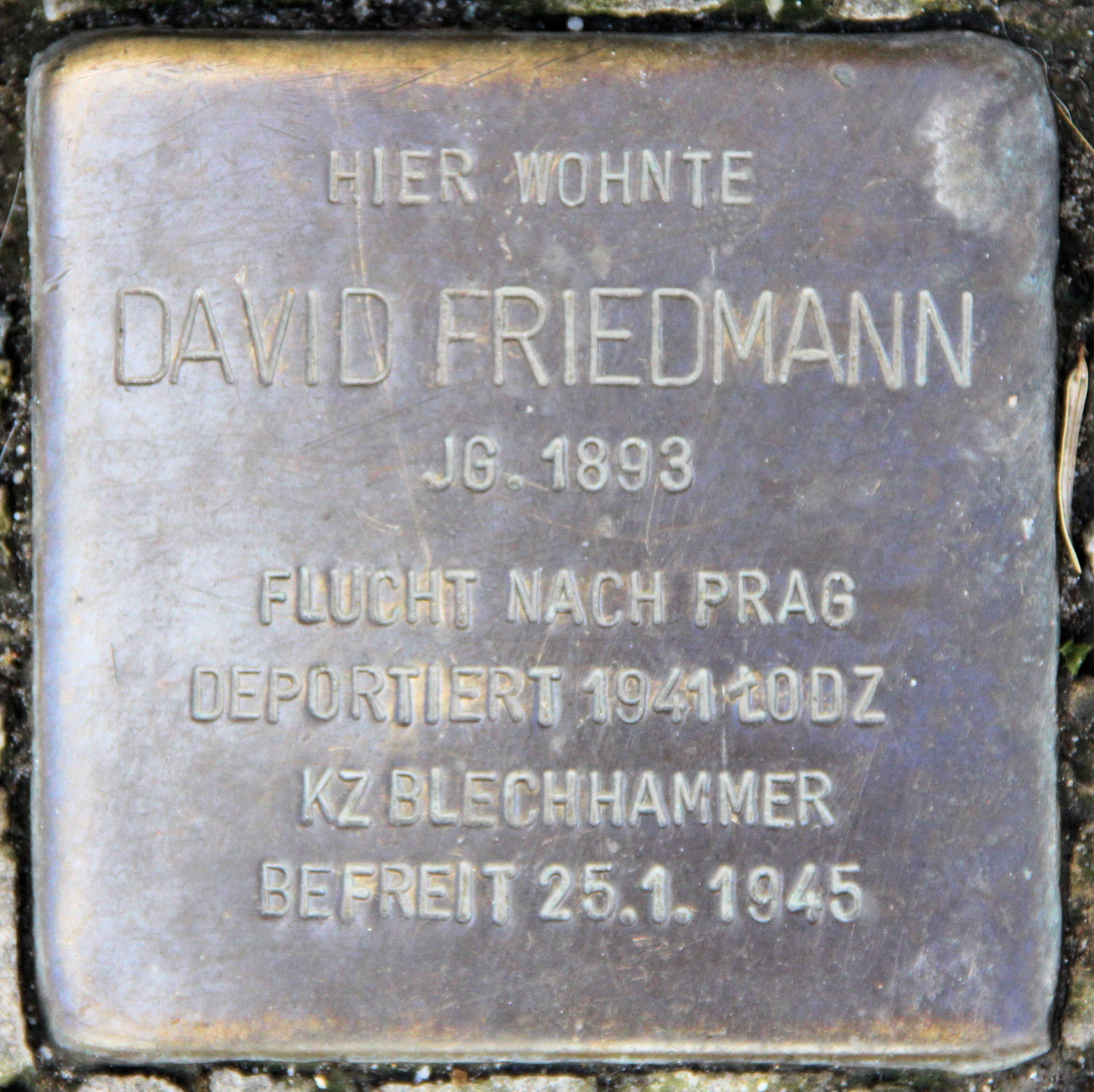 "Stolperstein" (stumbling block), David Friedmann, Paderborner Straße 9, Berlin-Wilmersdorf, Germany